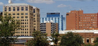 Wichita Falls, Texas